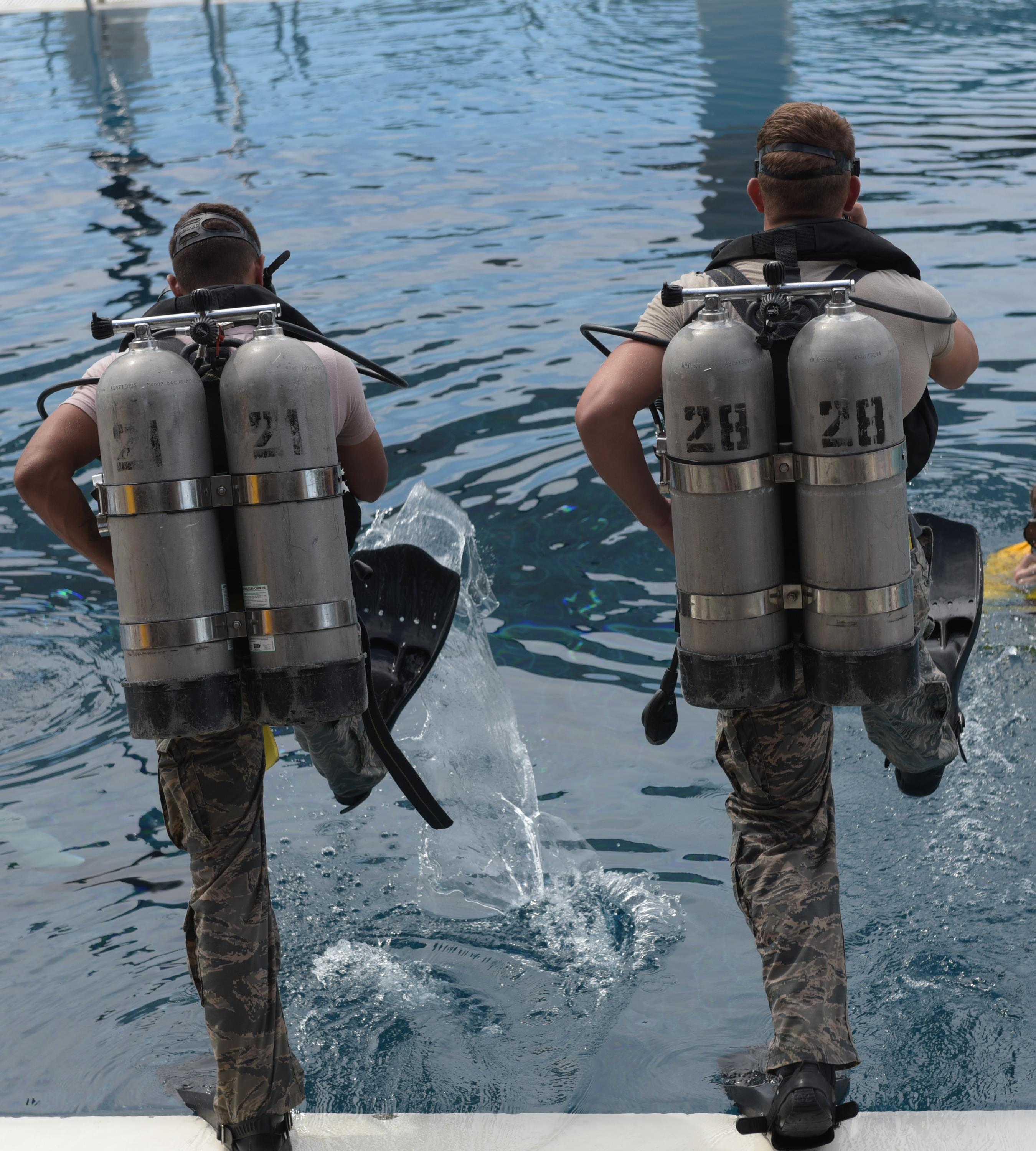 Airman attending the U.S. Air Force Combat Diver Course prepare to enter the water to practice the use of dive equipment